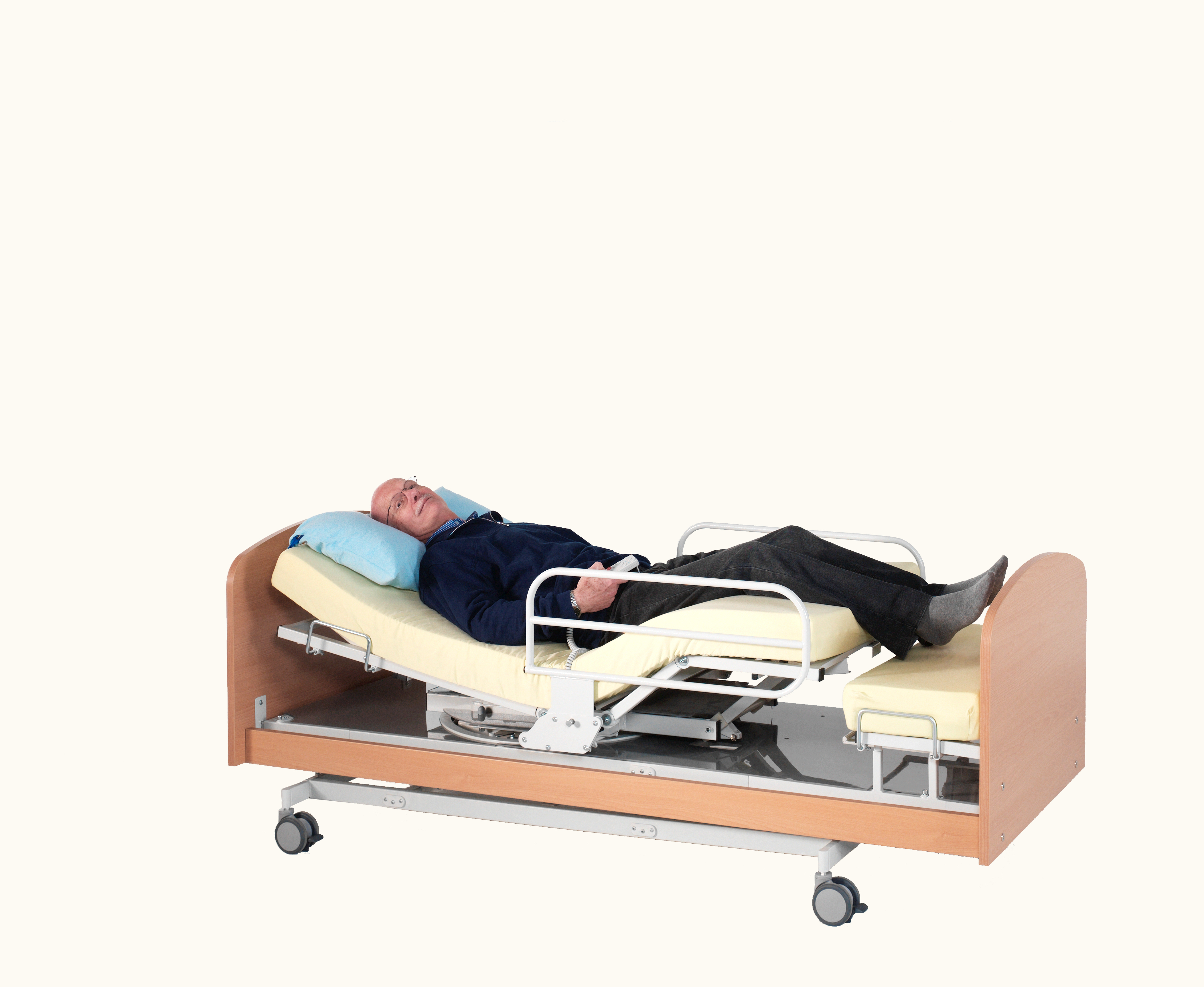 Active rising bed in a modified lying position.